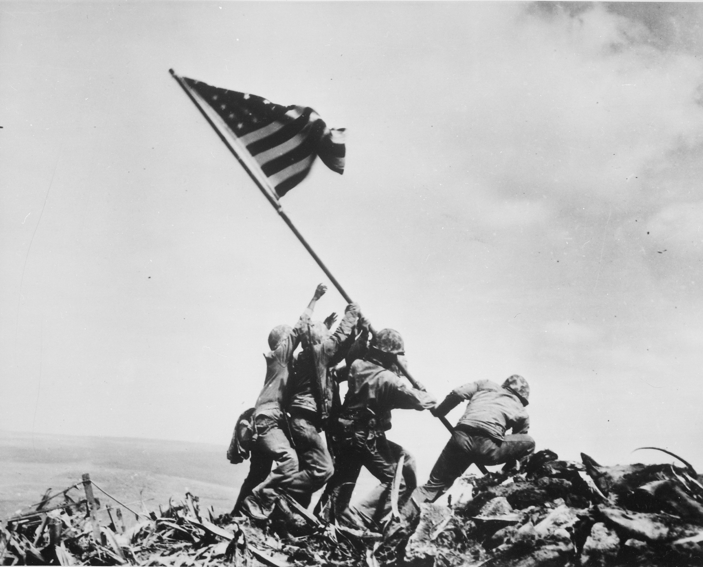 Flag Raising on Iwo Jima.